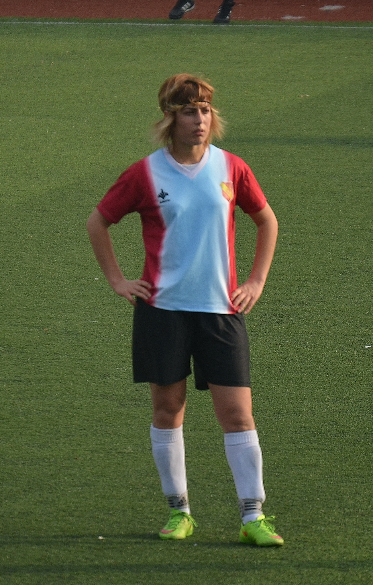 Tuğba Karataş playing for Trabzon İdmanocağı (women) in the away match of 2014-15 season against Ataşehir Belediyespor